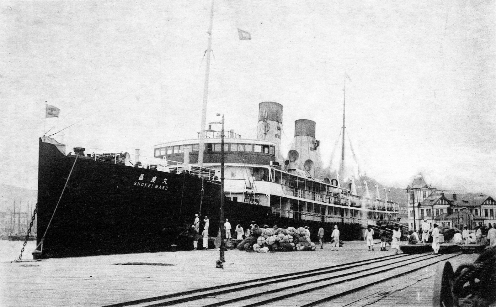 Shokei Maru (1923-1961) at No.1 Wharf of Busan Customs